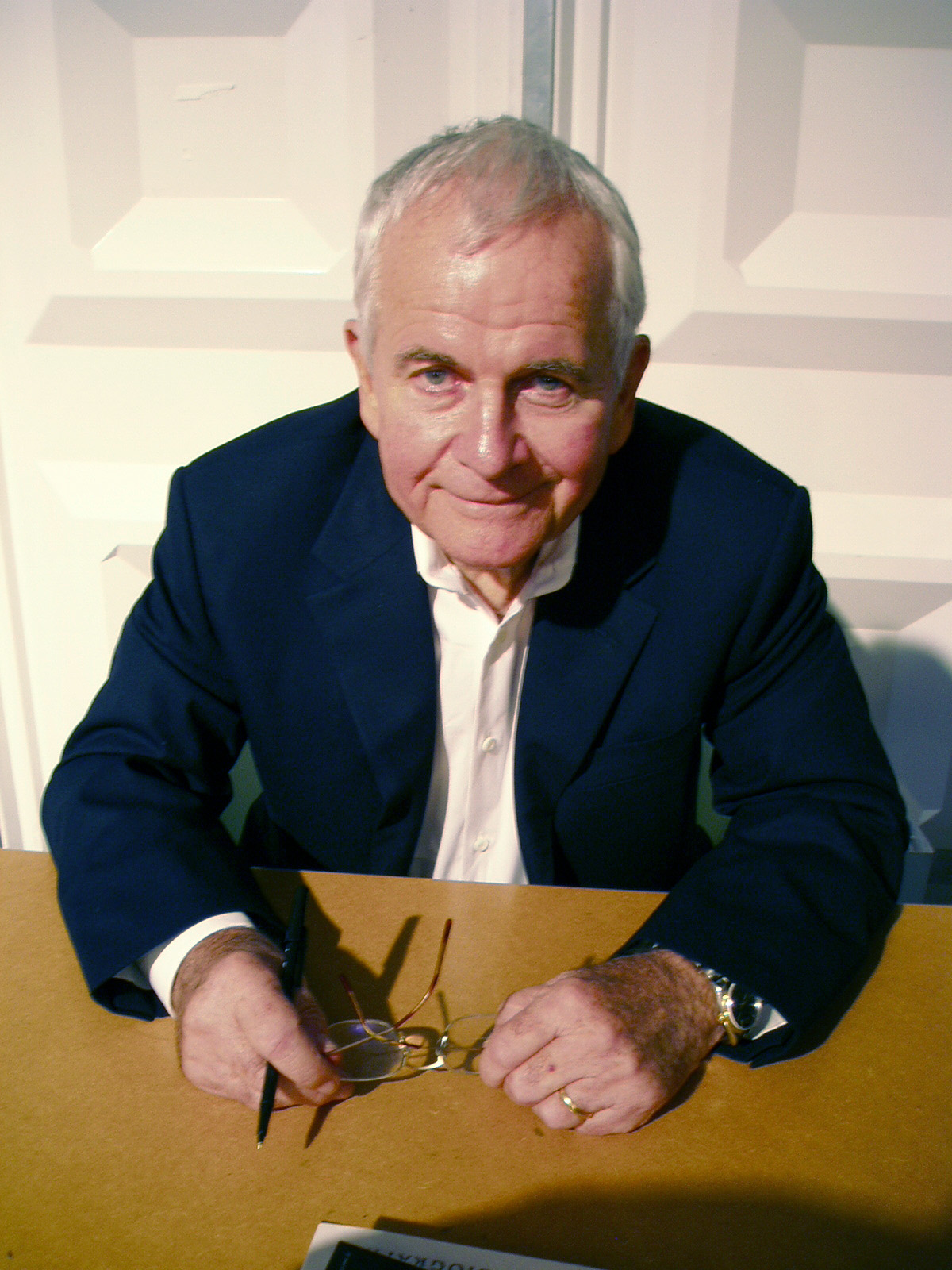 Sir Ian Holm in Edinburgh August 2004